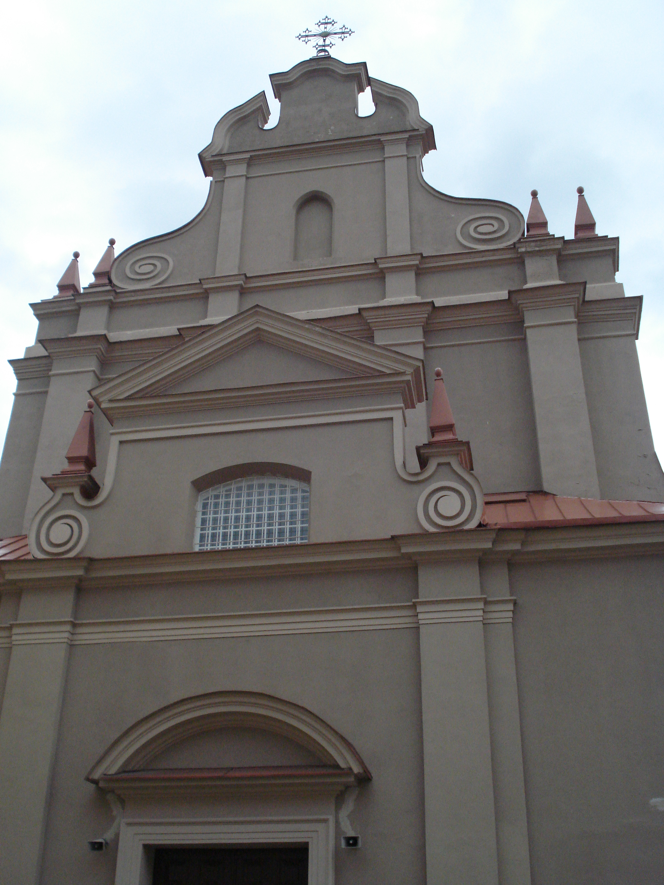 The Church of St. Ignatius in Vilnius (built between 1622 and 1647). Šv. Ignoto g. 6